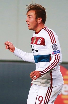 Mario Götze